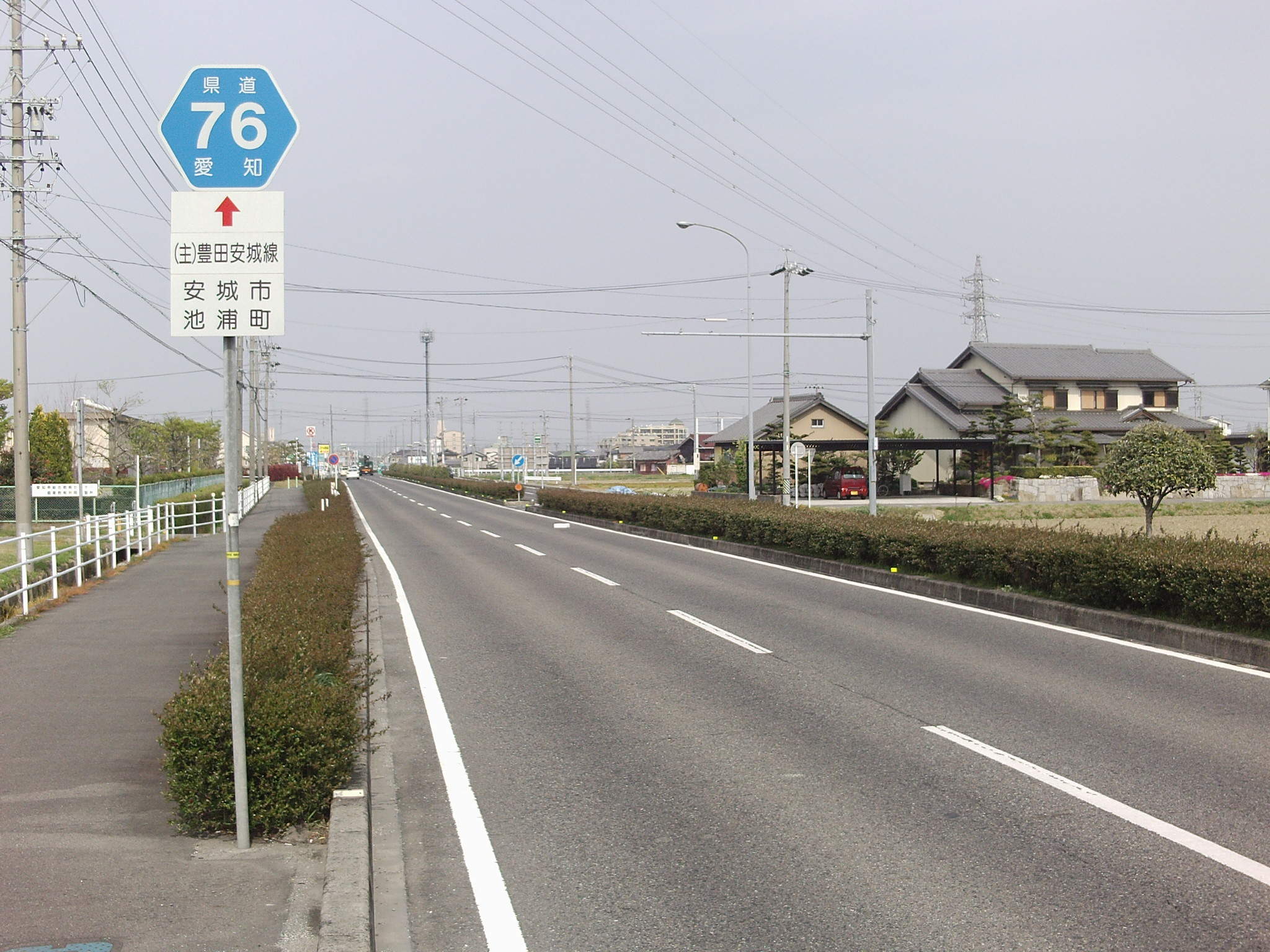 The Aichi Prefectural Road Route 76 in Ikeuracho, Anjo City